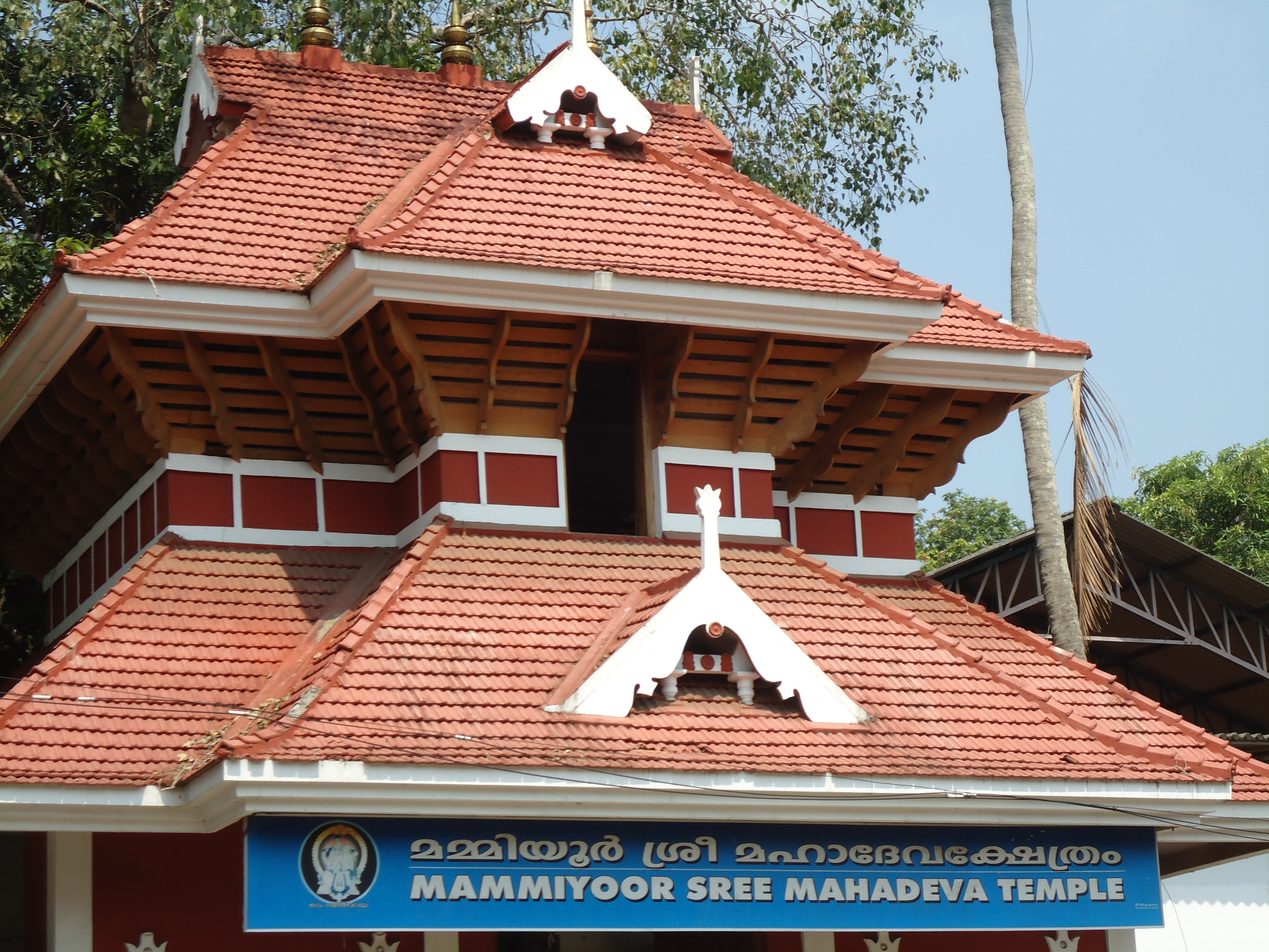 This media file is uploaded with Malayalam loves Wikimedia event.